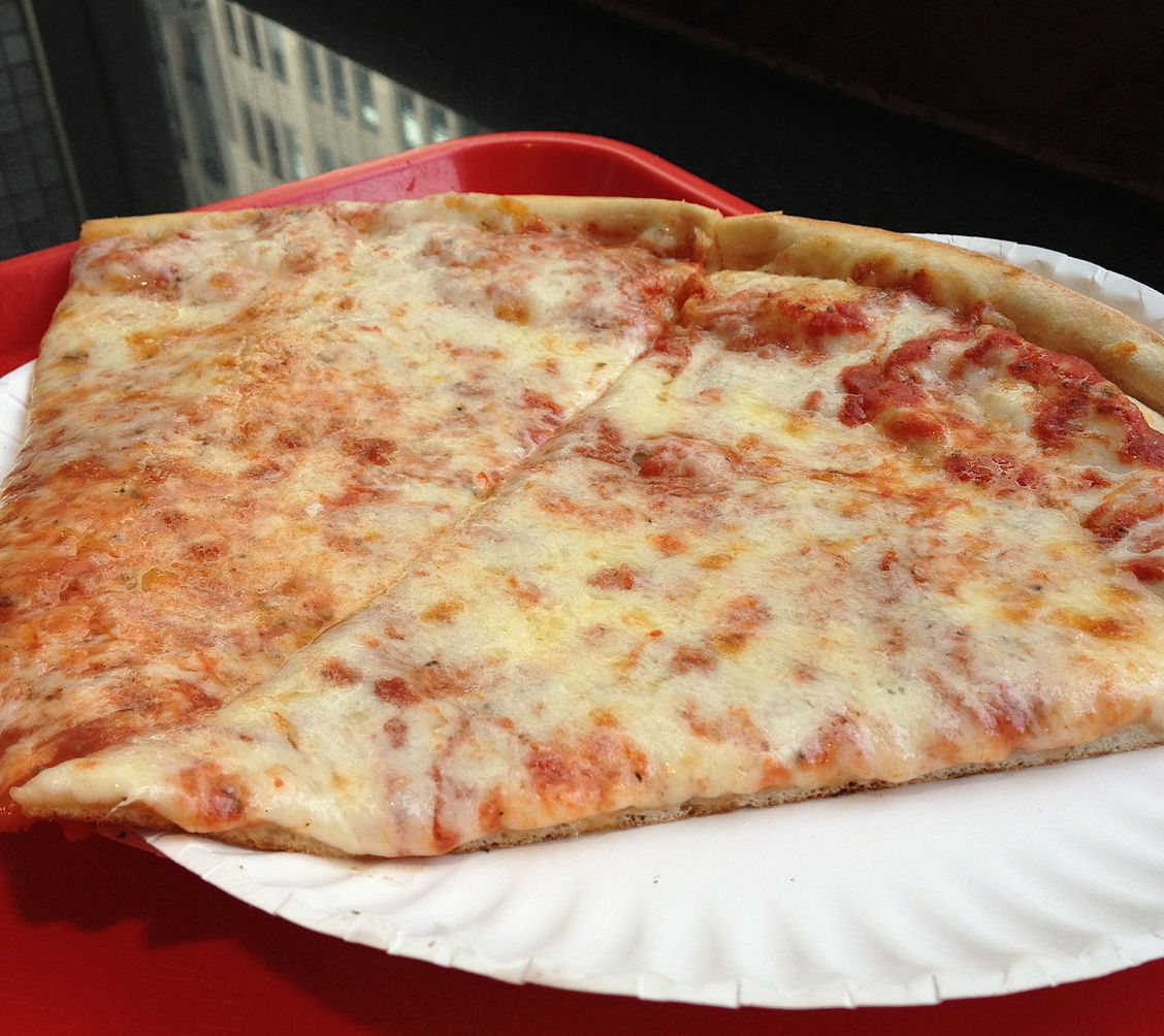 Slices of New York-style pizza to-go - and by fare the most authentic image supplied.